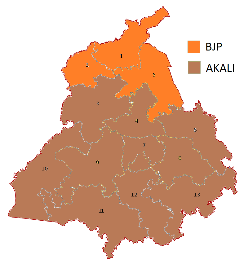 Seat Sharing among various constituents of Punjab NDA